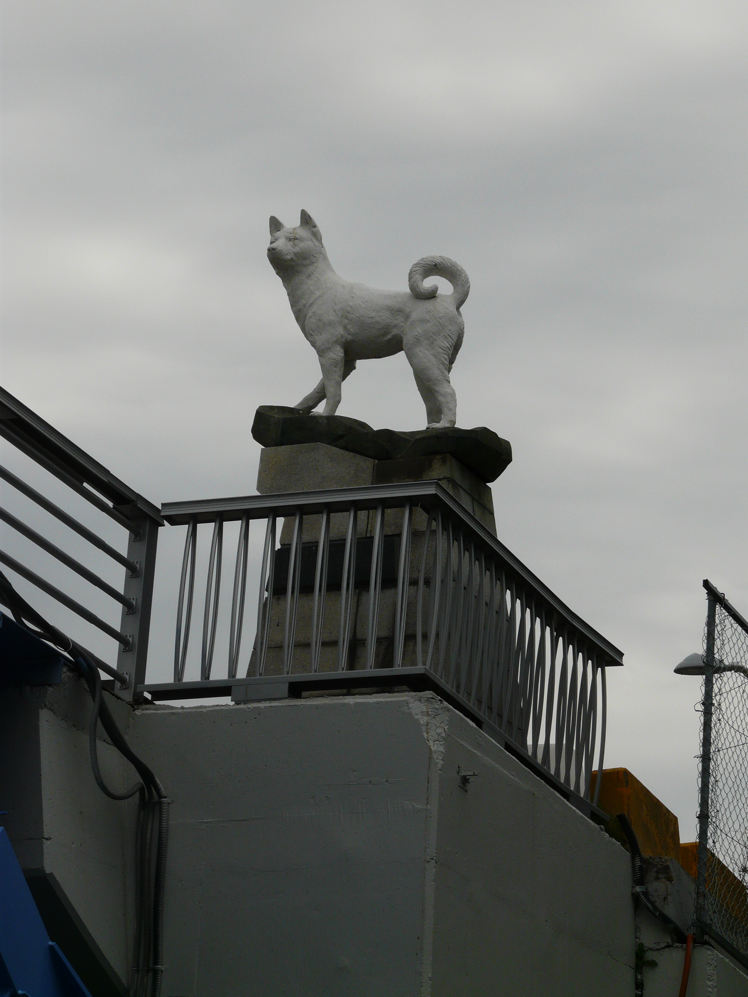 Photos from the Jindo island, Korea.